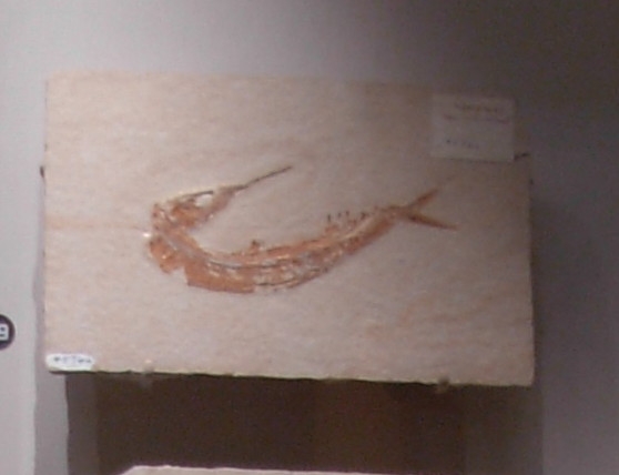 A fossil Belonostomus sp from the Solnhofen limestones of Germany. Carnegie Museum of Natural History #CM4776a